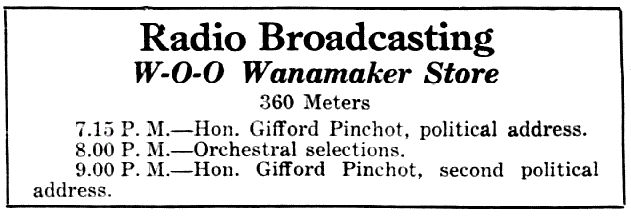 On the evening of April 24, 1922 Wanamaker's radio station, WOO, made its debut broadcast, and the department store advertised its schedule.